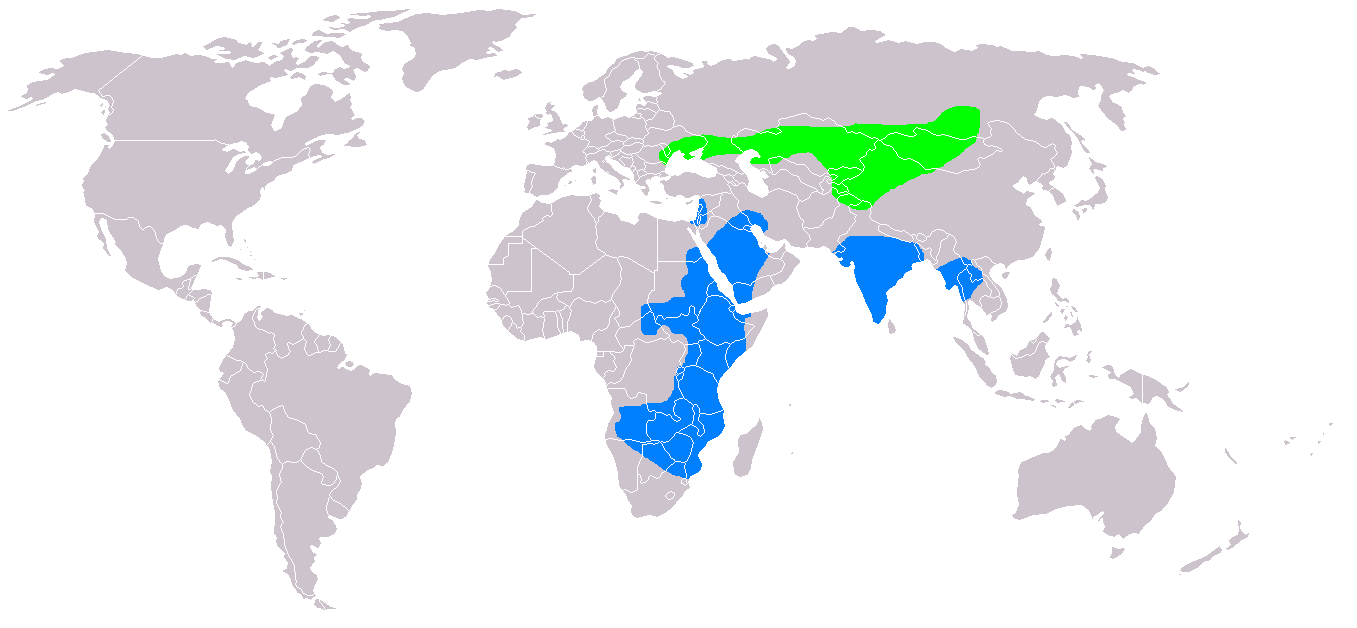 Distribution of Aquila nipalensis nesting area resident all year wintering area